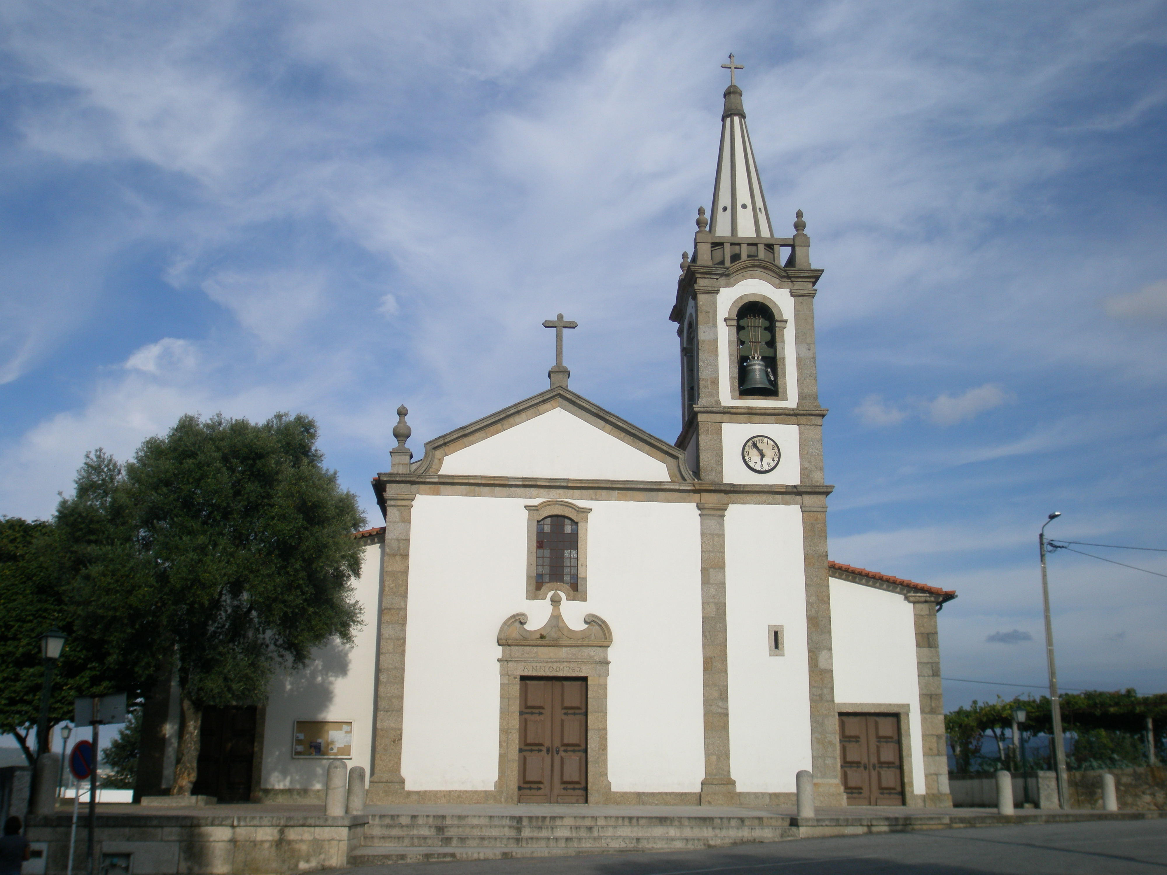 Brito's church